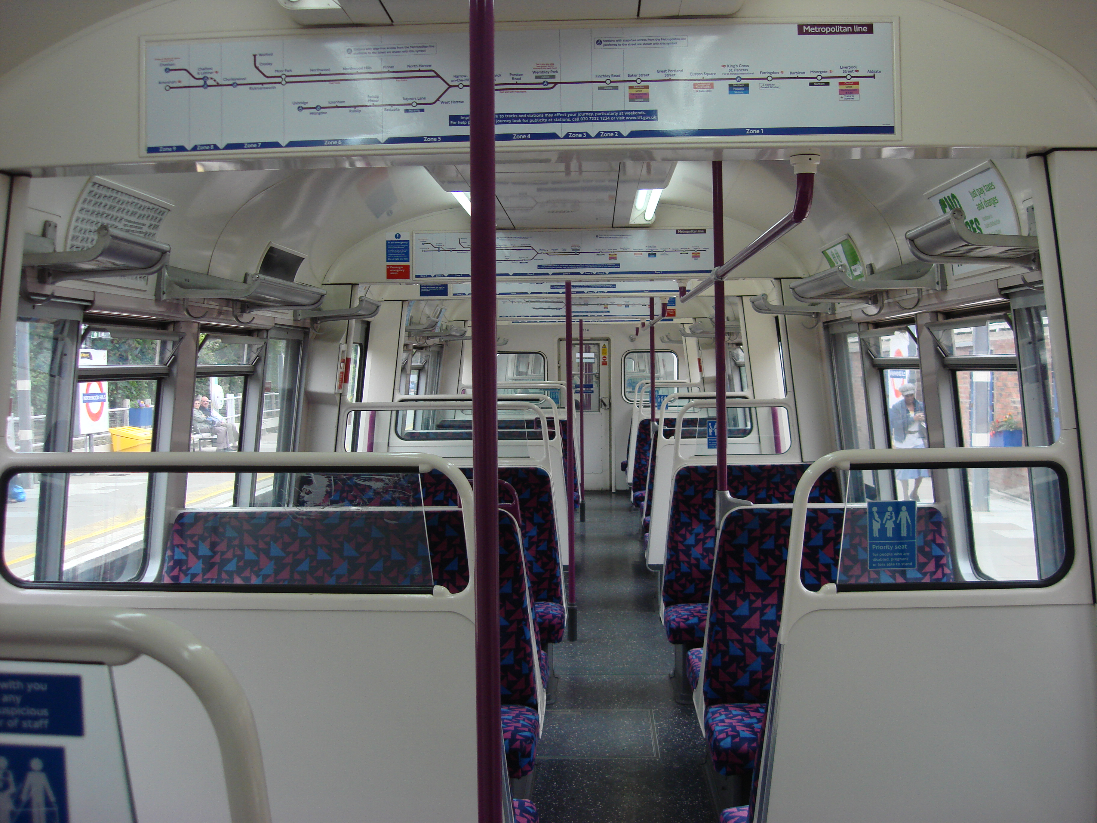 London Underground A60 Stock Stock Interior